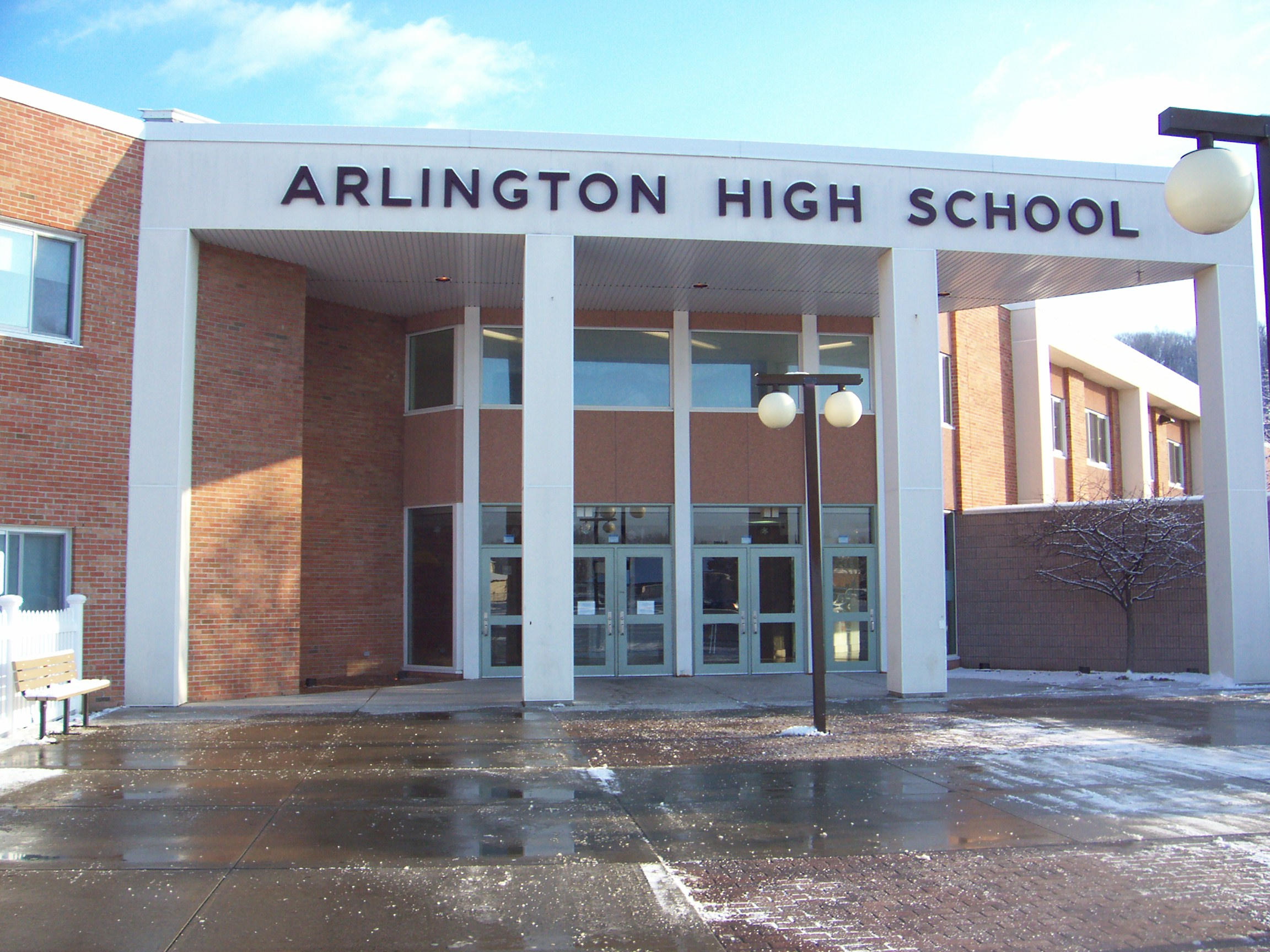 Arlington High School, located in LaGrange, New York.